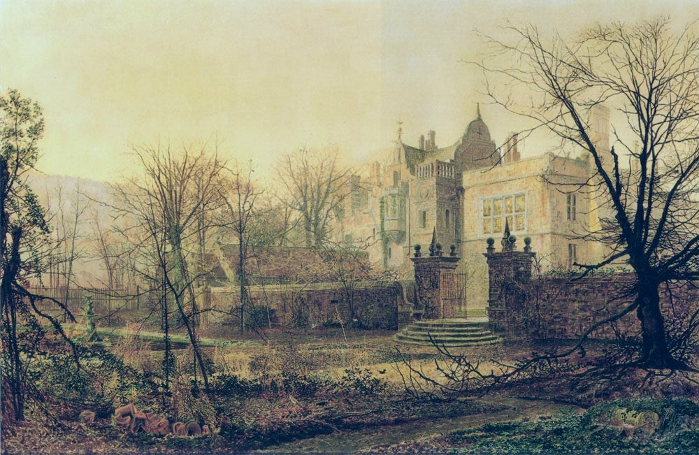 Knostrop Hall, Knowsthorpe, Leeds (demolished 1960). Painting by Atkinson Grimshaw (1836-1893).